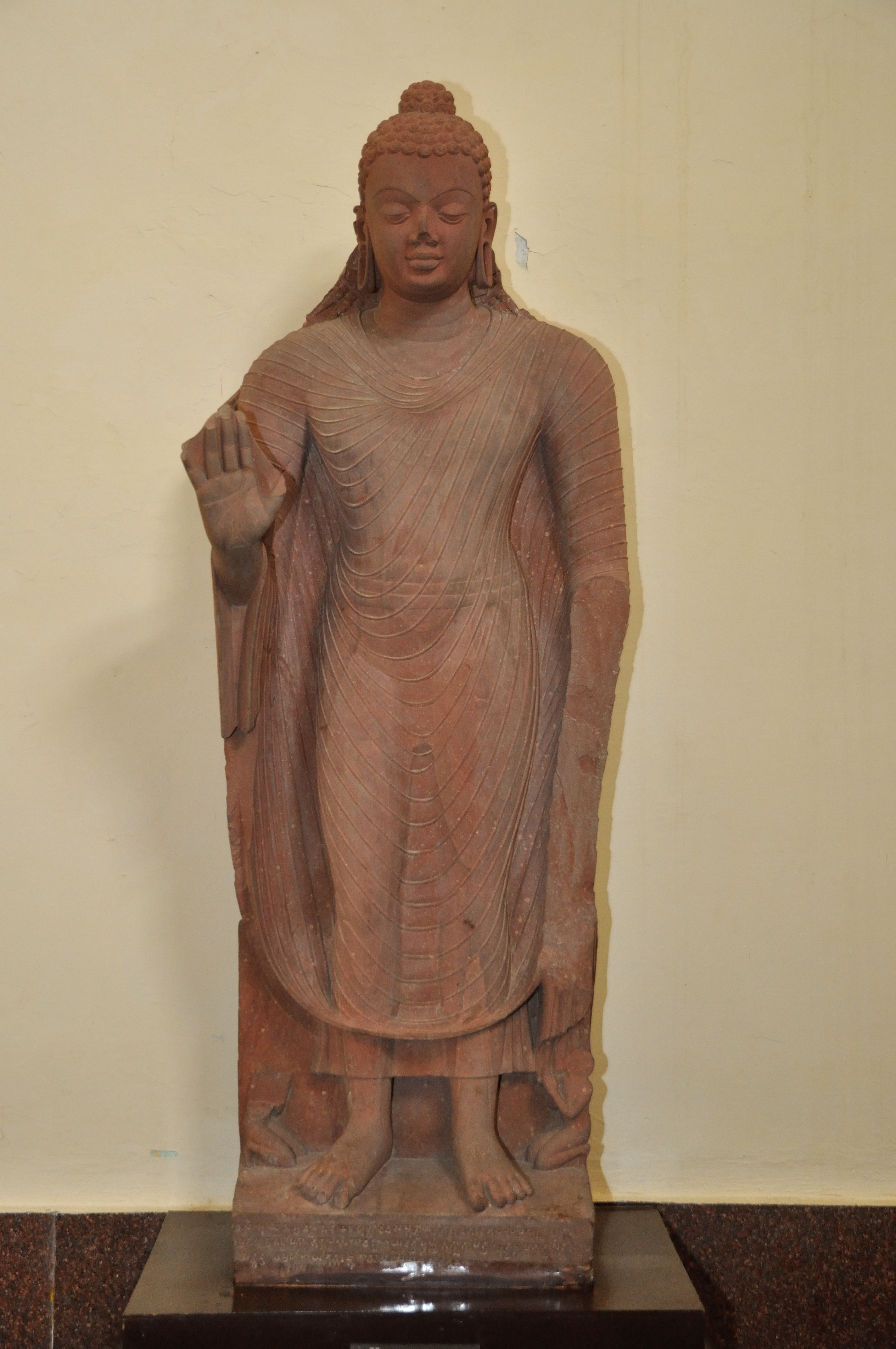 This artefact resides at the Government Museum, (hi: Rashtriya Sangrahalaya) formerly The Curzon Museum of Archaeology, Museum Road or Murari Lal Rajpal road, Dampier Nagar, Mathura, Uttar Pradesh, India. This museum is administrating by the State Government of Uttar Pradesh of India.